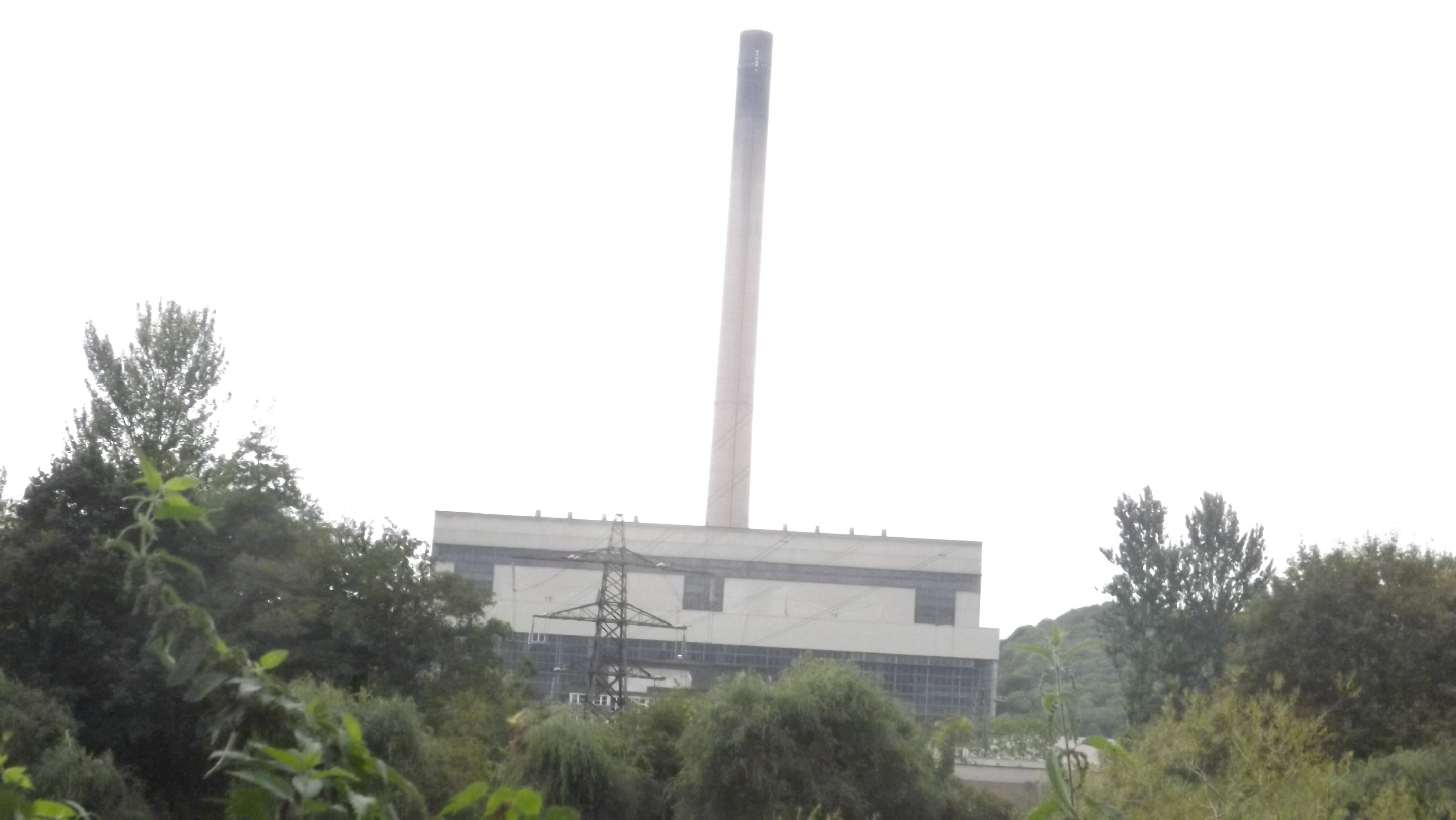 My own.